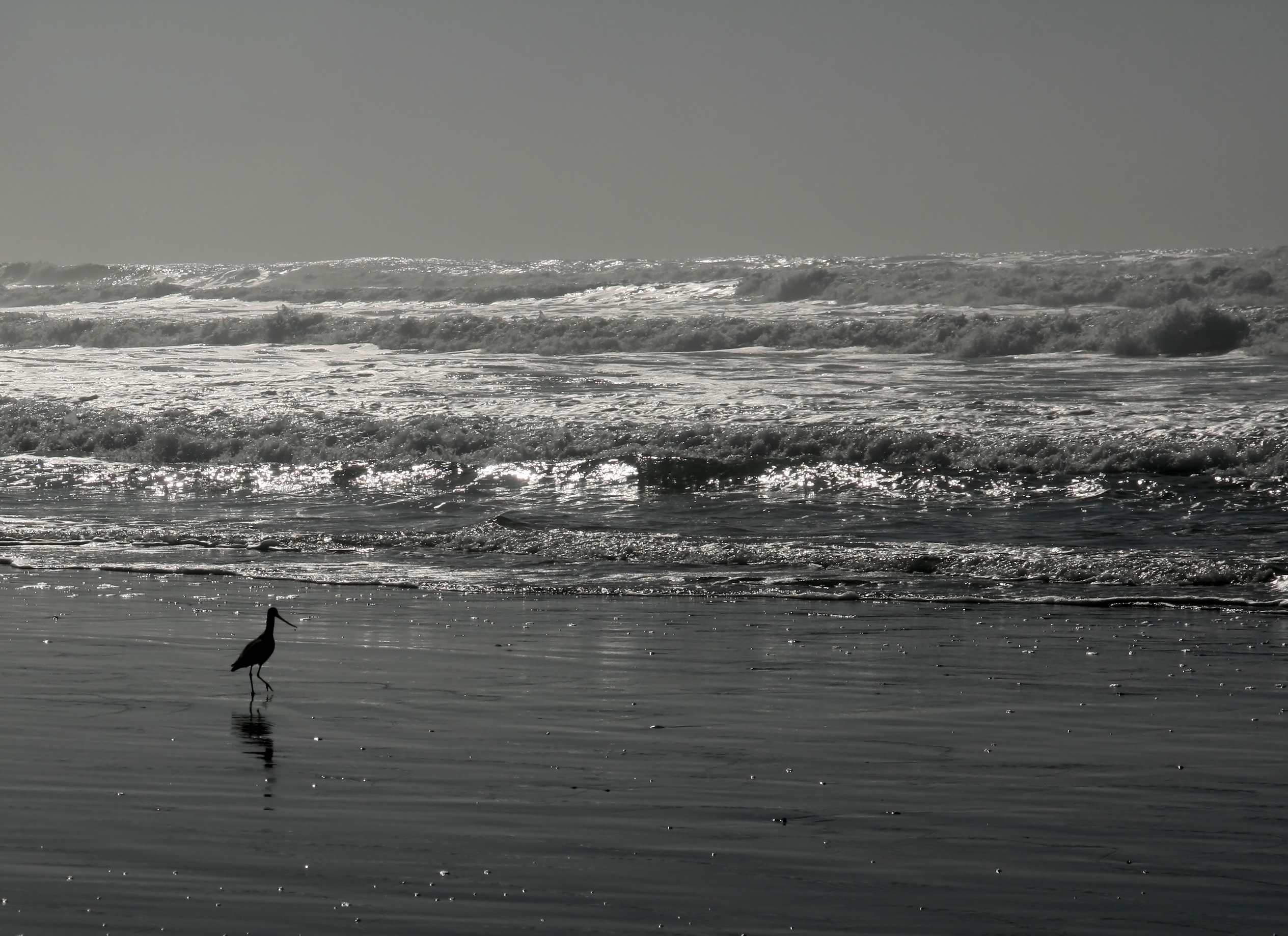 Limosa fedoa is walking at Ocean Beach at low tide against the sun.